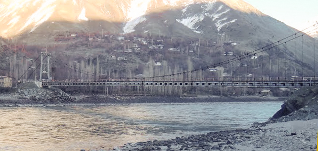 Friendship bridge between Afghanistan and Tajikistan in Darwaz-Darvoz region